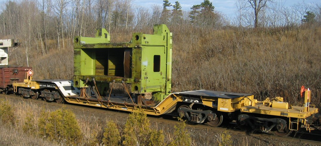 A heavy duty flatcar with load. Photographed passing through Scotch Block, Ontario on 27 November 2004.